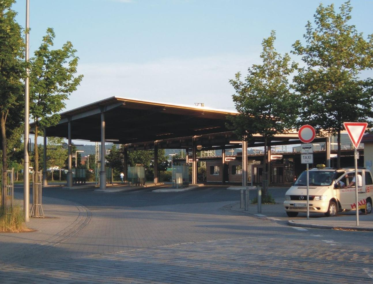 Bus station at Neumarkt in der Oberpfalz, Bavaria, Germany